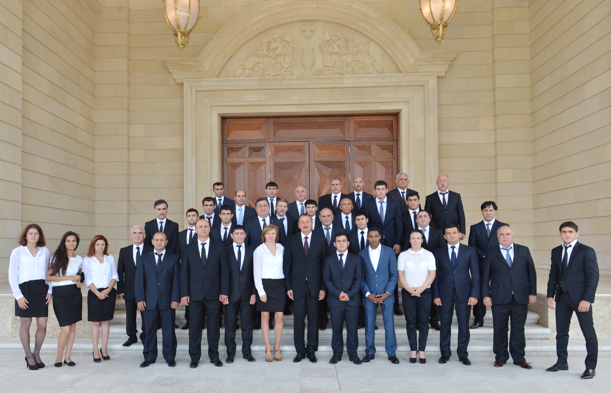 Ilham Aliyev received winners and prize-winners in the 27th Summer Universiade in Kazan, as well as their coaches and sports professionals of the republic